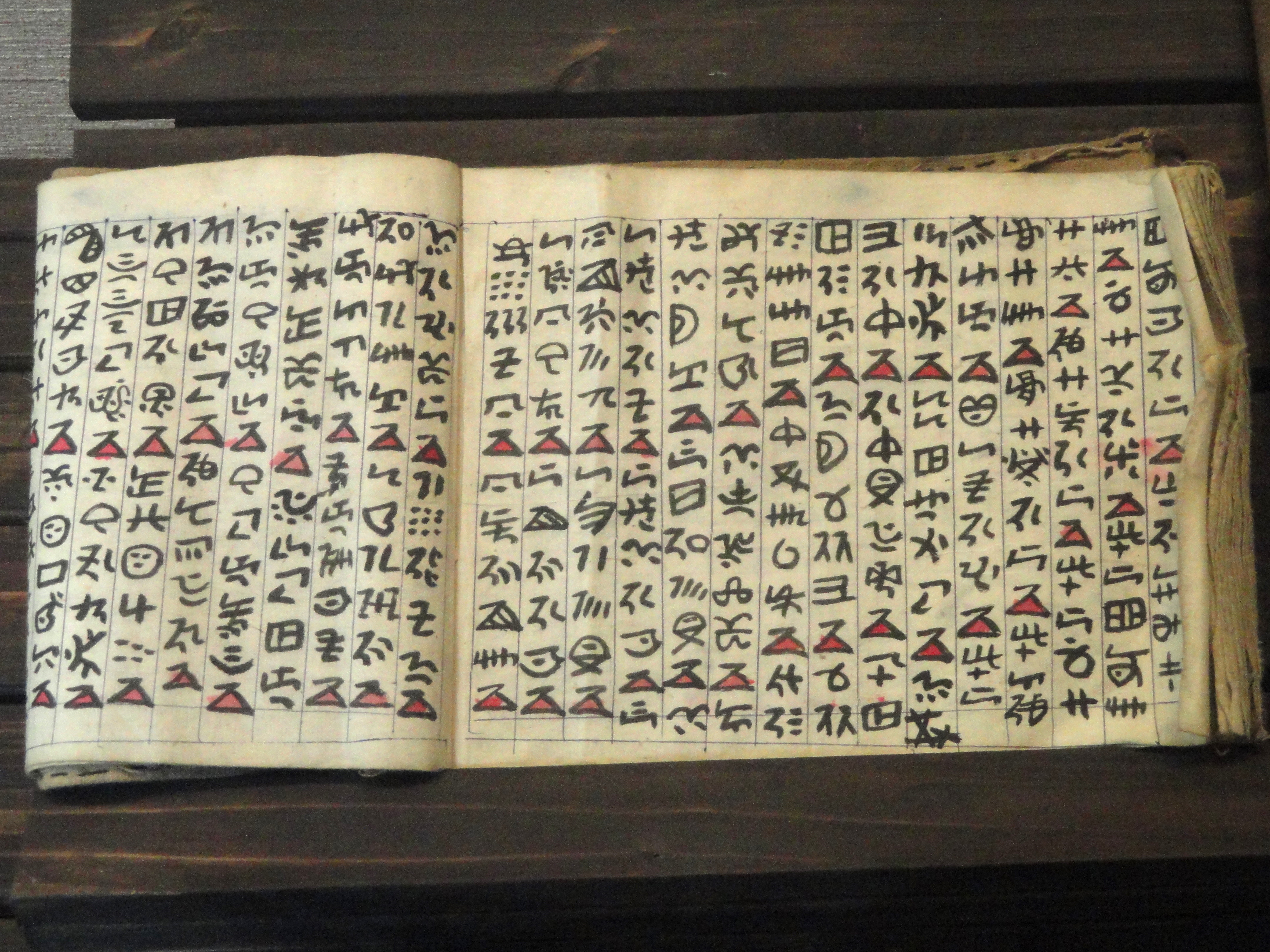 Yi funeral rituals. Manuscripts / writing systems in the Yunnan Nationalities Museum, Kunming, Yunnan, China.